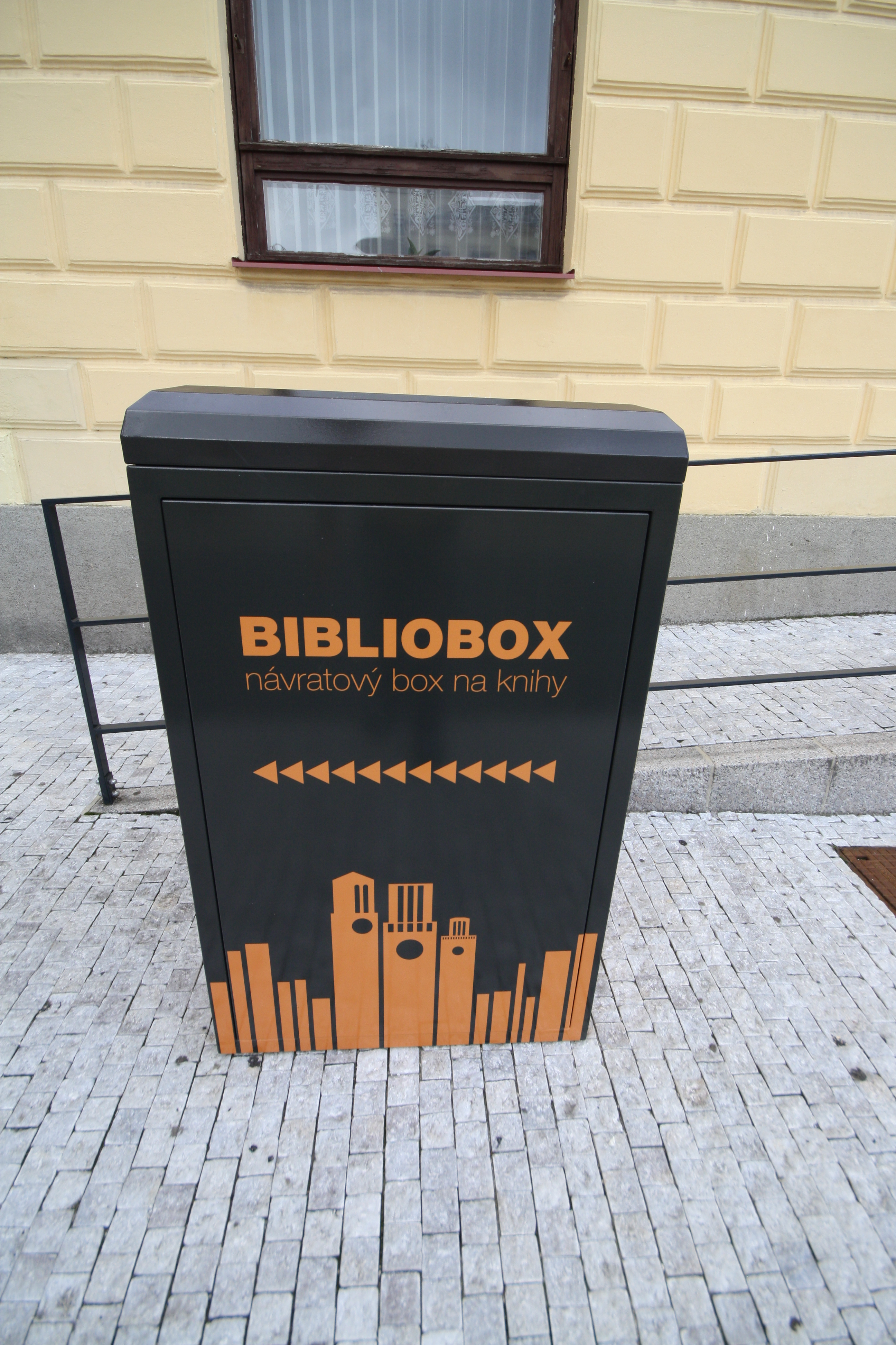 Bibliobox in Jablonec nad Nisou.